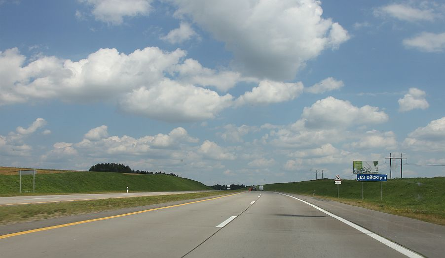 M3 highway, arriving to Lahoisk district (raion) of the Minsk region, Belarus, when driving towards north. Note: This part of M3 highway is currently toll road for heavy traffic and for smaller cars from non-customs union (BY-RU-KZ) countries (BelToll system).